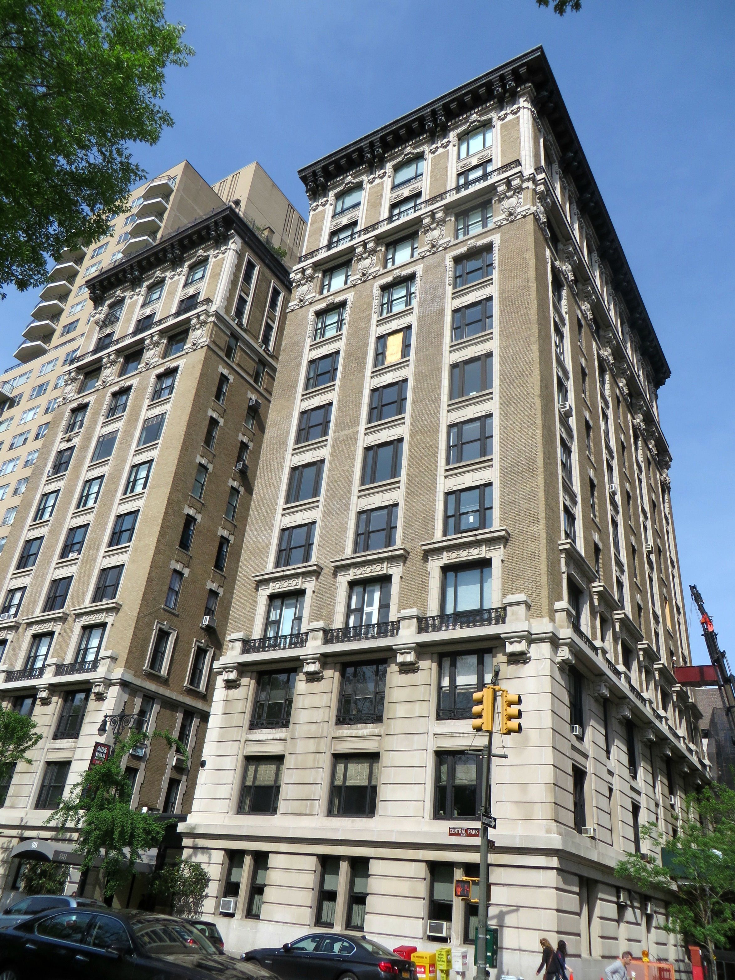 The Brentmore apartment building in 2013